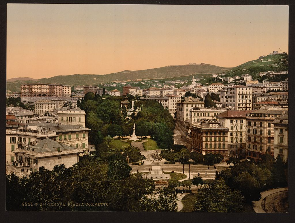 [Corvetto Place (Acqua Sola) (i.e. Piazza Corvetto, Acquasola Park), Genoa, Italy] [between ca. 1890 and ca. 1900]. 1 photomechanical print : photochrom, color. Notes: Title from the Detroit Publishing Co., Catalogue J--foreign section, Detroit, Mich. : Detroit Publishing Company, 1905. Print no. "8544". Forms part of: Views of architecture and other sites in Italy in the Photochrom print collection. Subjects: Italy--Genoa. Format: Photochrom prints--Color--1890-1900. Rights Info: No known restrictions on reproduction. Repository: Library of Congress, Prints and Photographs Division, Washington, D.C. 20540 USA, Part Of: Views of architecture and other sites in Italy (DLC) 2001700650 More information about the Photochrom Print Collection is available at Persistent URL: Call Number: LOT 13434, no. 086 [item] This image is available from the United States Library of Congress's Prints and Photographs division under the digital ID missing.This tag does not indicate the copyright status of the attached work. A normal copyright tag is still required. See Commons:Licensing for more information.